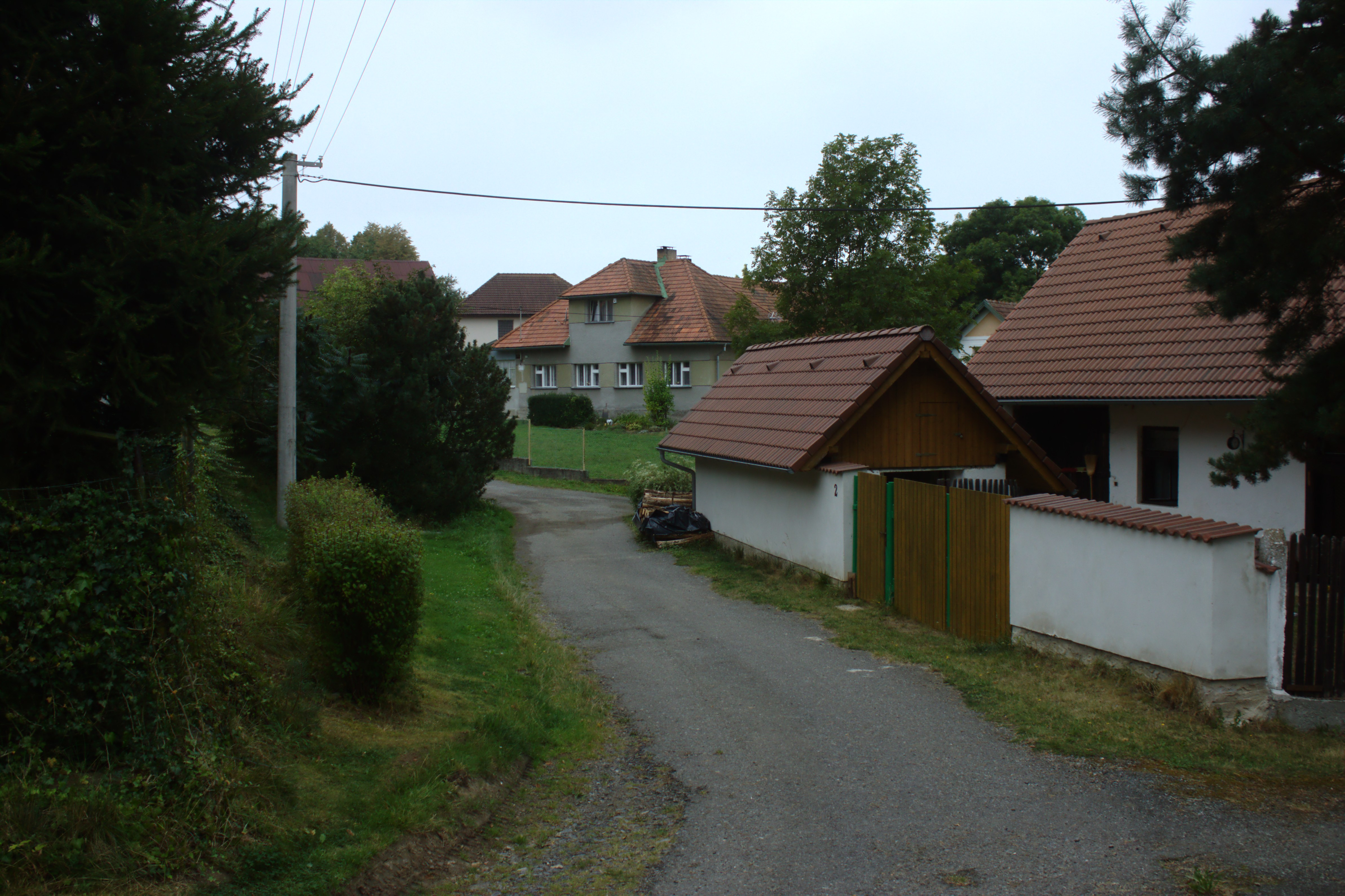 A road in the village of Kramolín, Vysočina Region, CZ